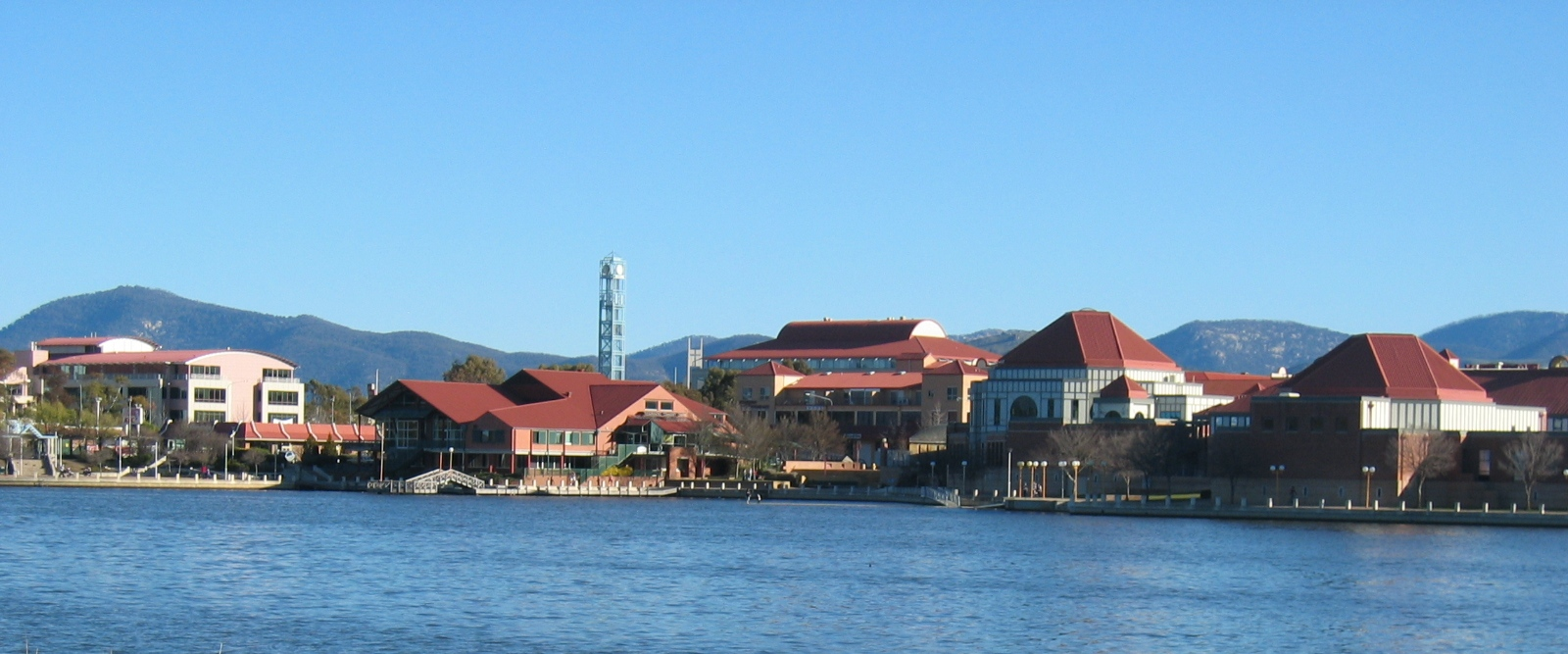 The Tuggeranong Town Centre is located on Lake Tuggerenong. Photo taken by Adz 28 August 2005.